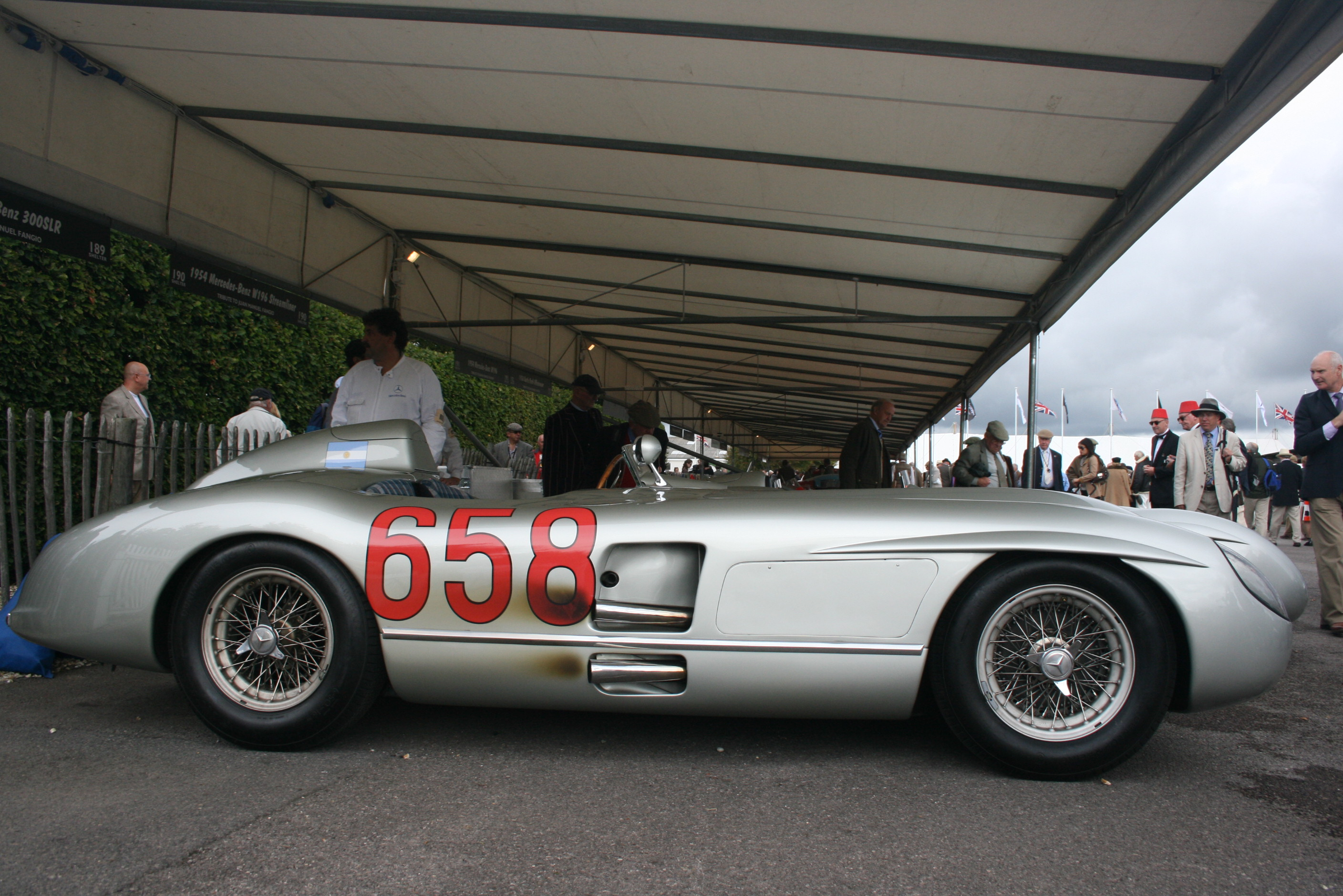 The famous Mercedes number 658, driven by Fangio